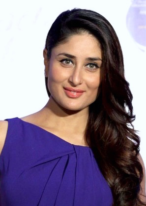 Kareena Kapoor Khan at an event for Head & Shoulders